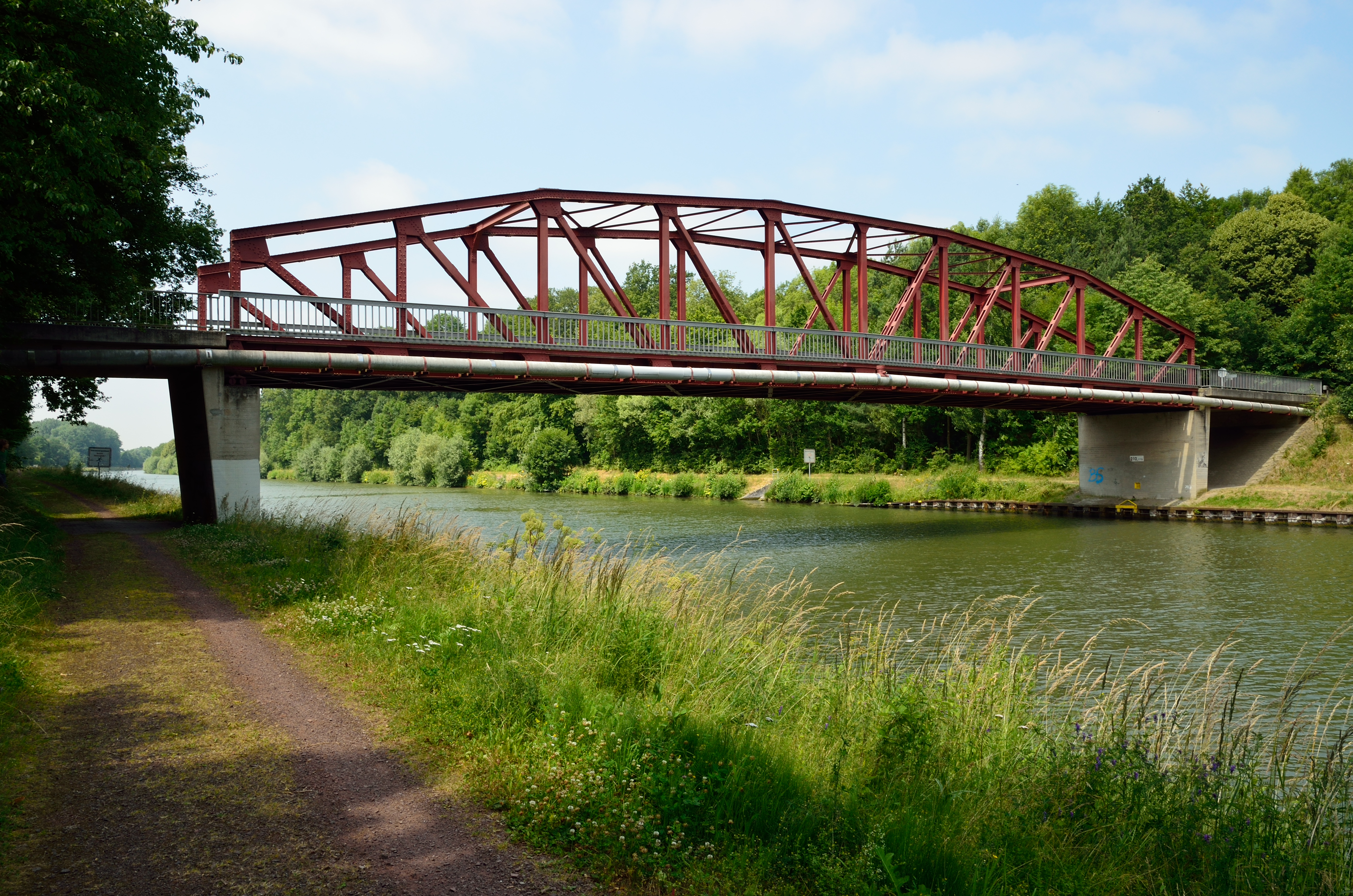 Bridge over the Midland Canal near Sophiental, Wendeburg